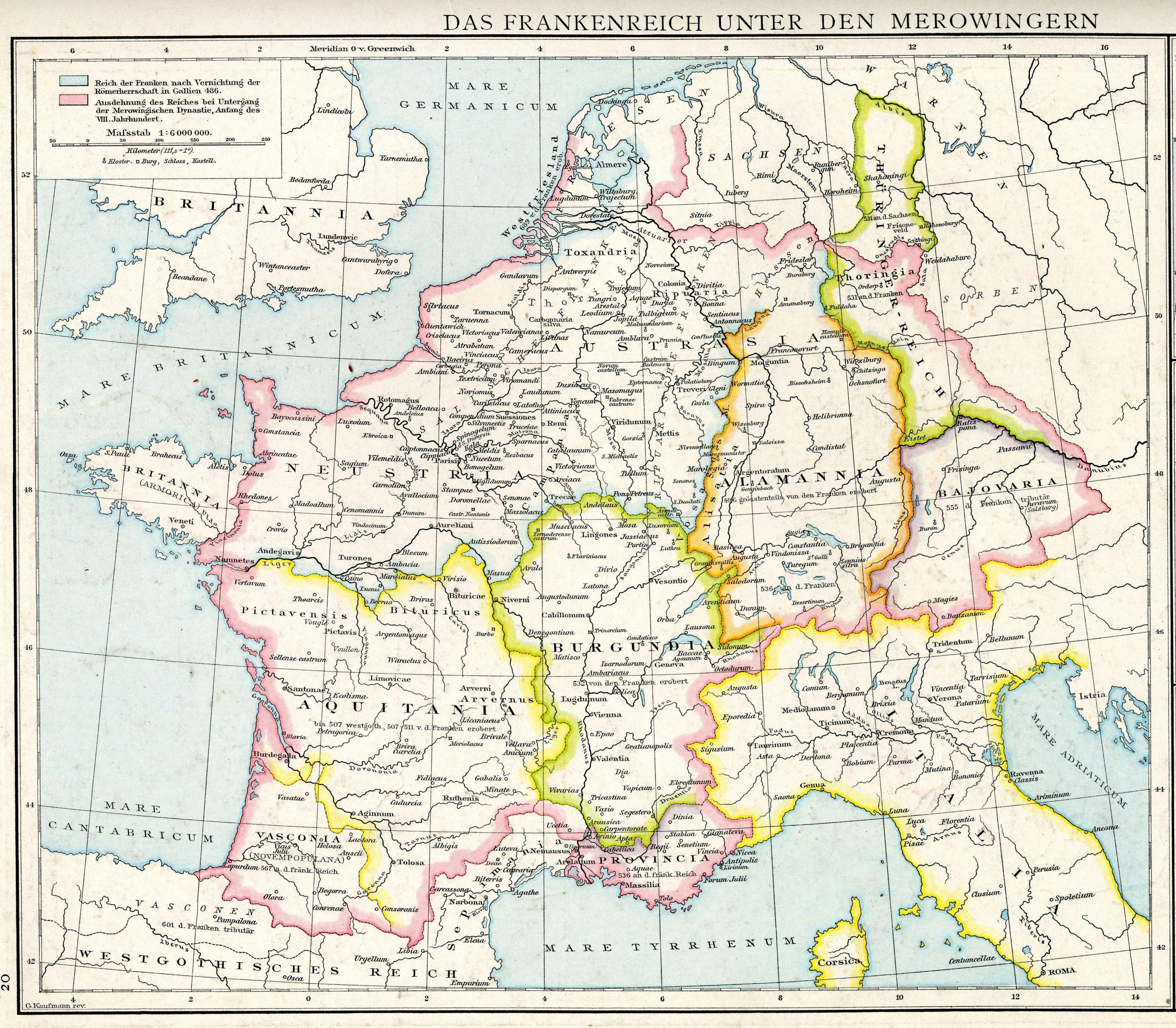 The Frankish Kingdom under the Merovingians about 486